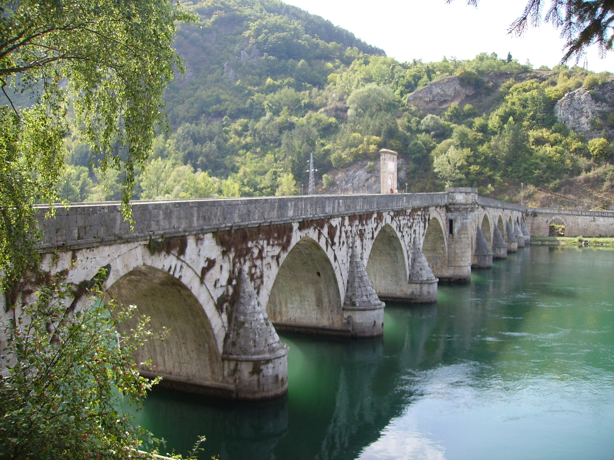 Bridge over Drina River in Višegrad, BiH.